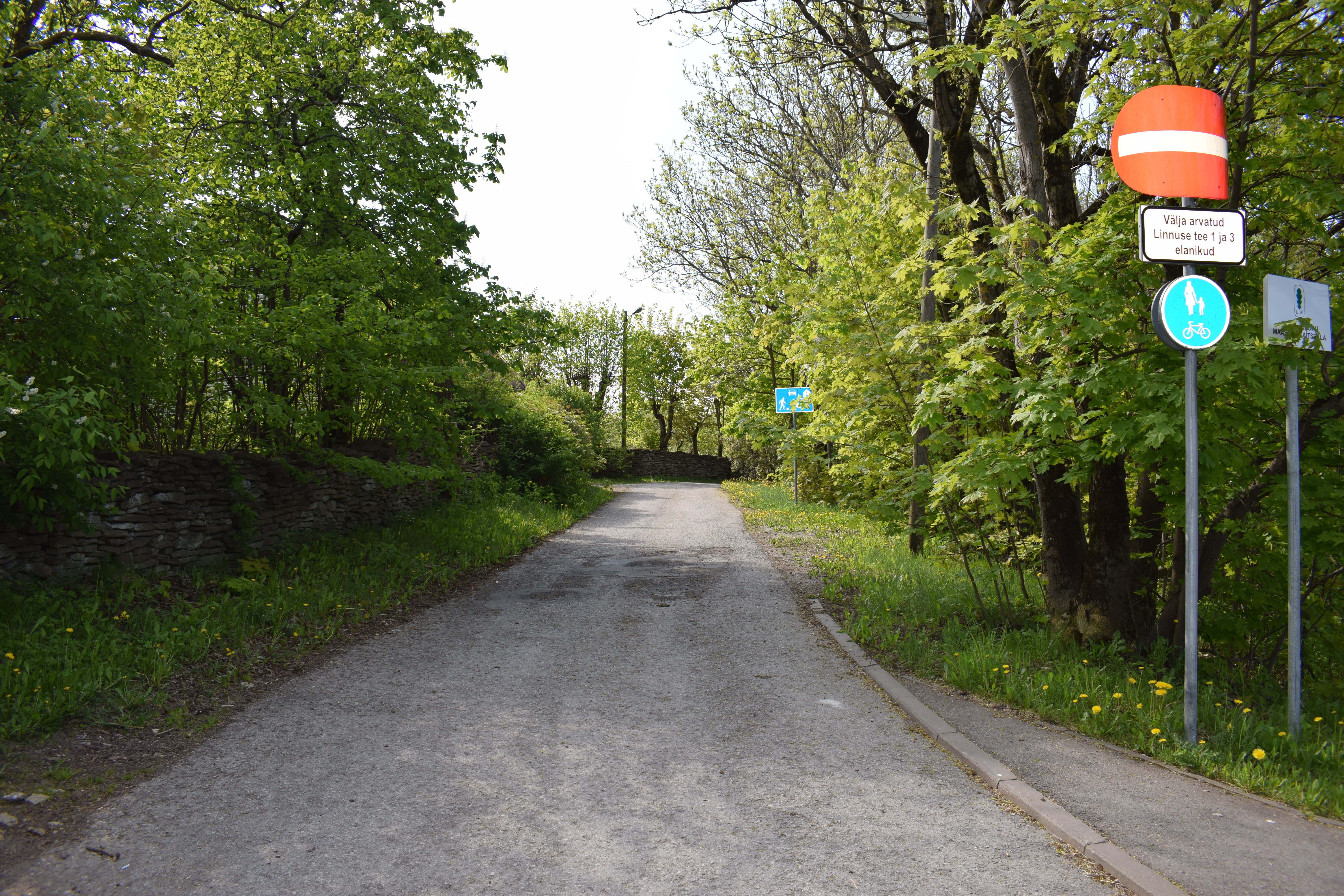 Linnuse road